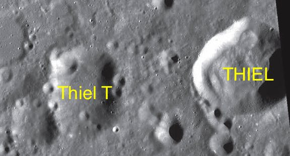 Part of the chart LAC-34 used for the presentation